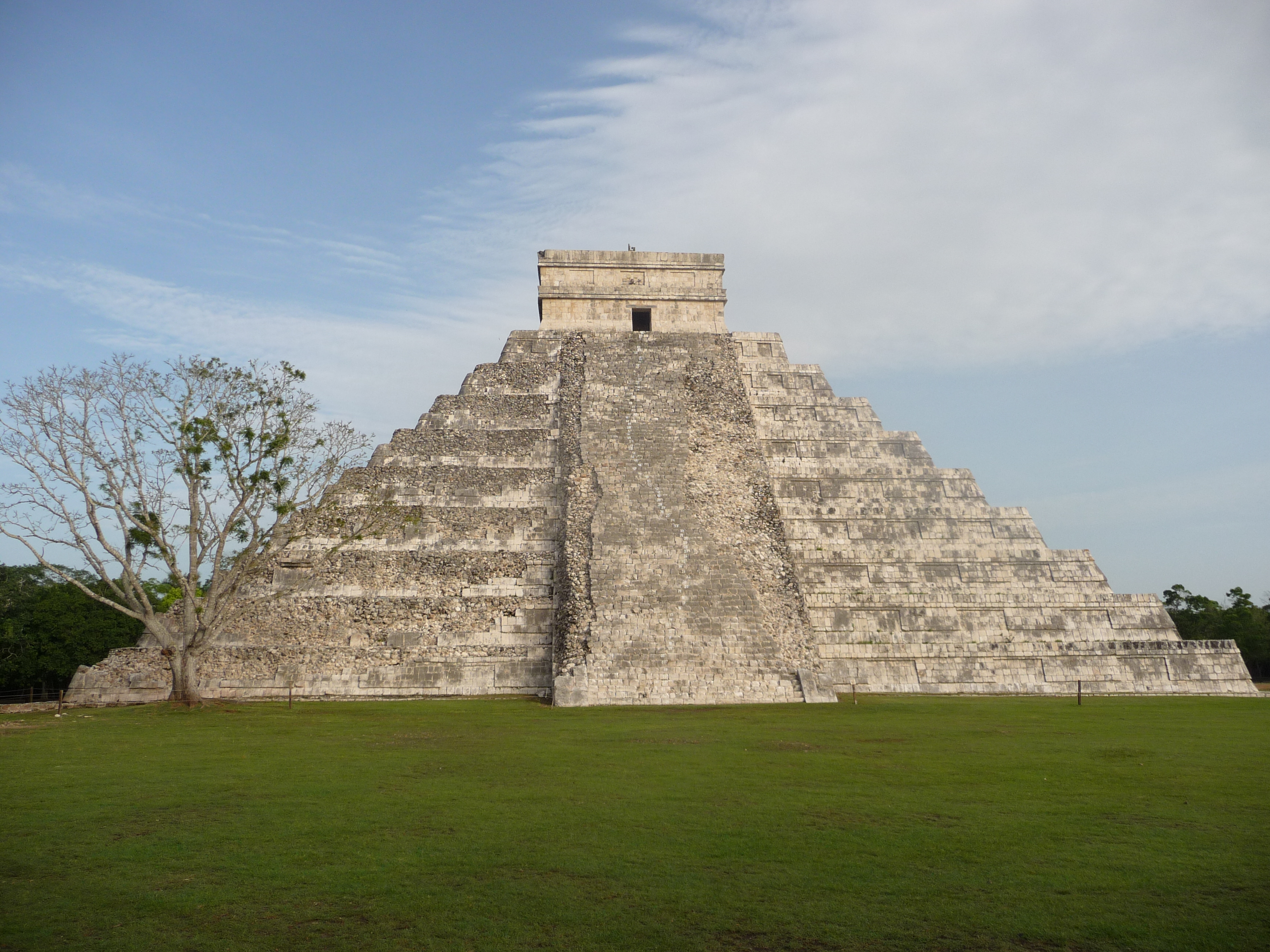 Temple of Kukulcan in Chichén Itzá